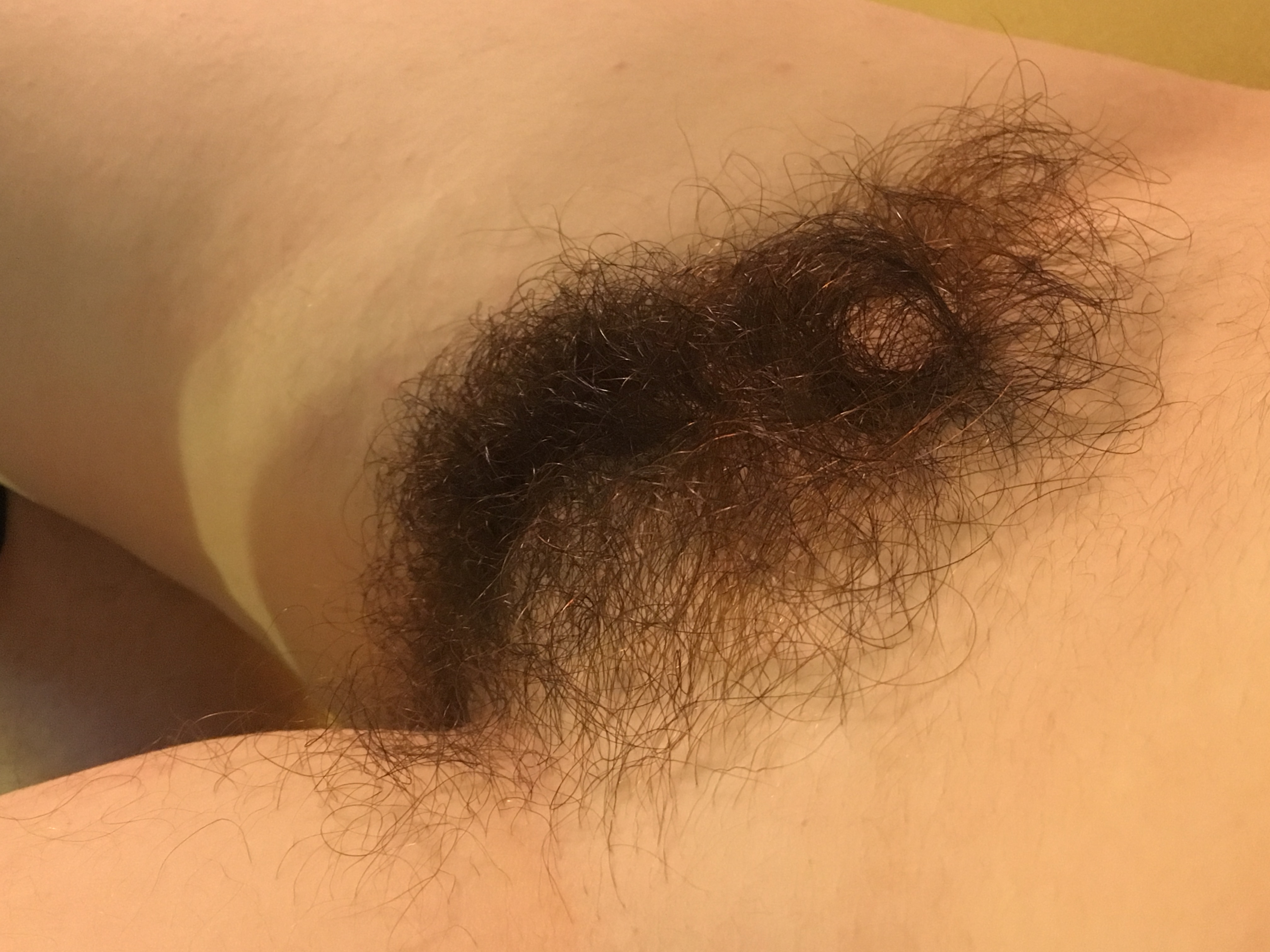 Natural pubic hair of female genitalia.